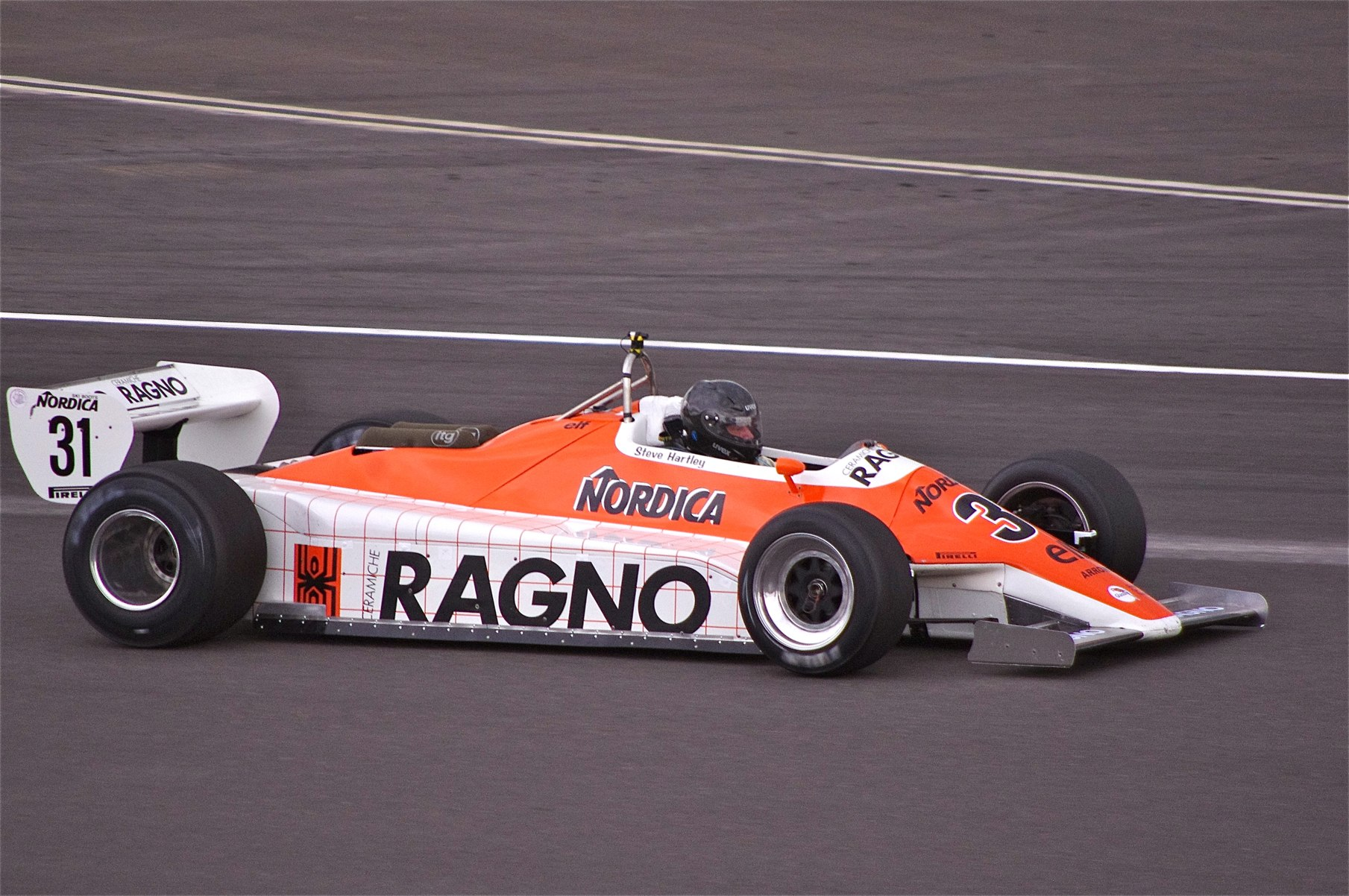 Silverstone Classic 2011